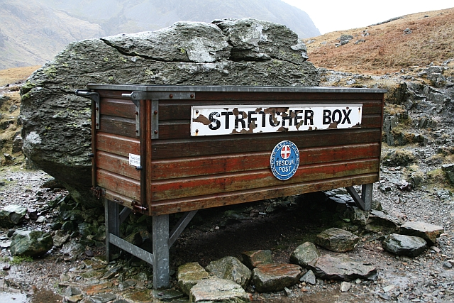 Stretcher Box at Styhead Positioned so that Mountain Rescue Teams don't have to carry a stretcher all the way up here. There is also a similar box positioned a couple of miles away at the top of the Mickledore col.